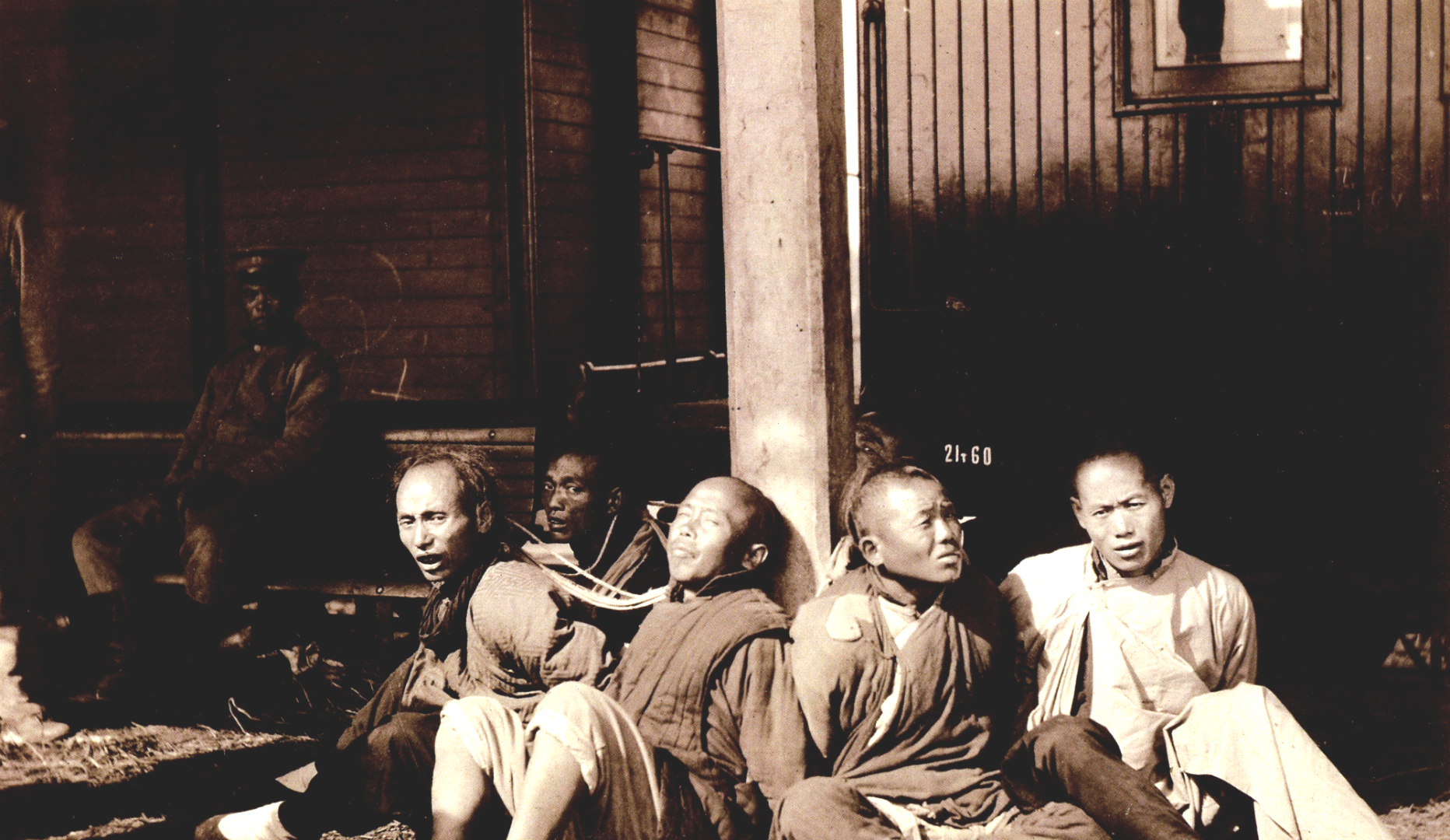 Title of the picture: Captured Republican prisoners, Hankou, 1911[1]